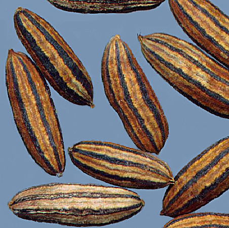 Elaeagnus angustifolia seeds.